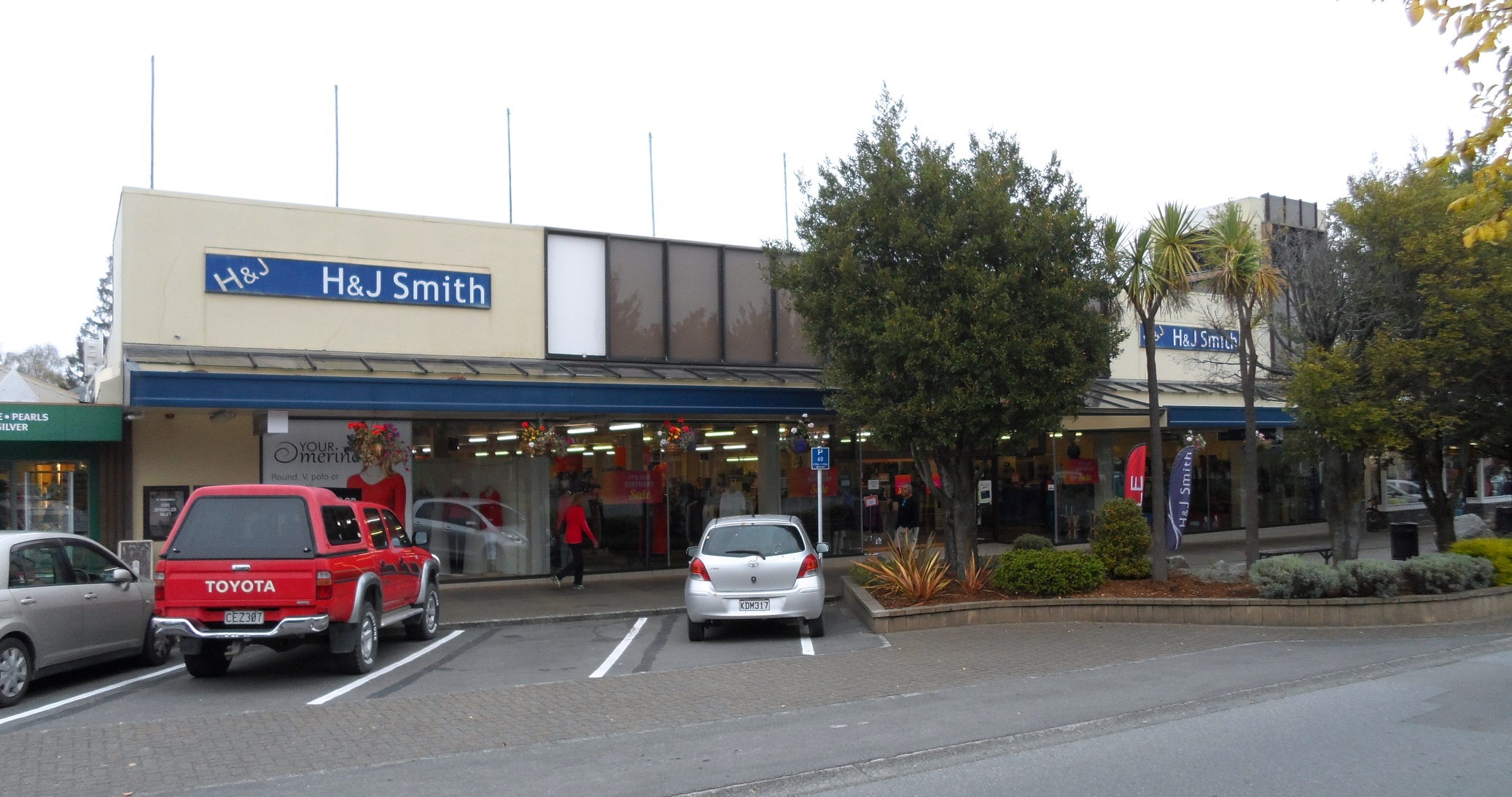 Te Anau, New Zealand branch of Southland-based department store chain H & J Smith in 2017.